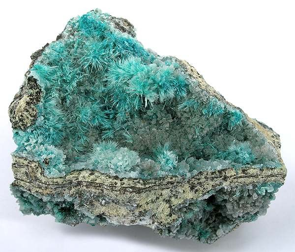 Aurichalcite, Hemimorphite Locality: 79 Mine (79th Mine; Seventy-Nine Mine; Seventy-Nine property; McHur prospect), Chilito, Hayden area, Banner District, Dripping Spring Mts, Gila County, Arizona, USA (Locality at ) Size: 8.2 x 6.3 x 3.9 cm. A beautiful, rich specimen with long aurichalcite needles spraying out within a protected pocket lined by bladed calcite crystals. This is a large, rich, attractive piece with excellent color and coverage. From the 400 level. Ex. Harold Urish Collection.